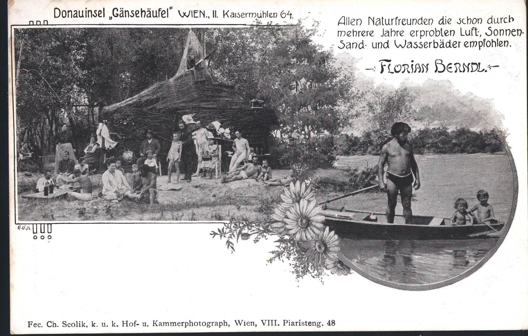 Florian Berndl, pioneer of Vienna's Gänsehäufel